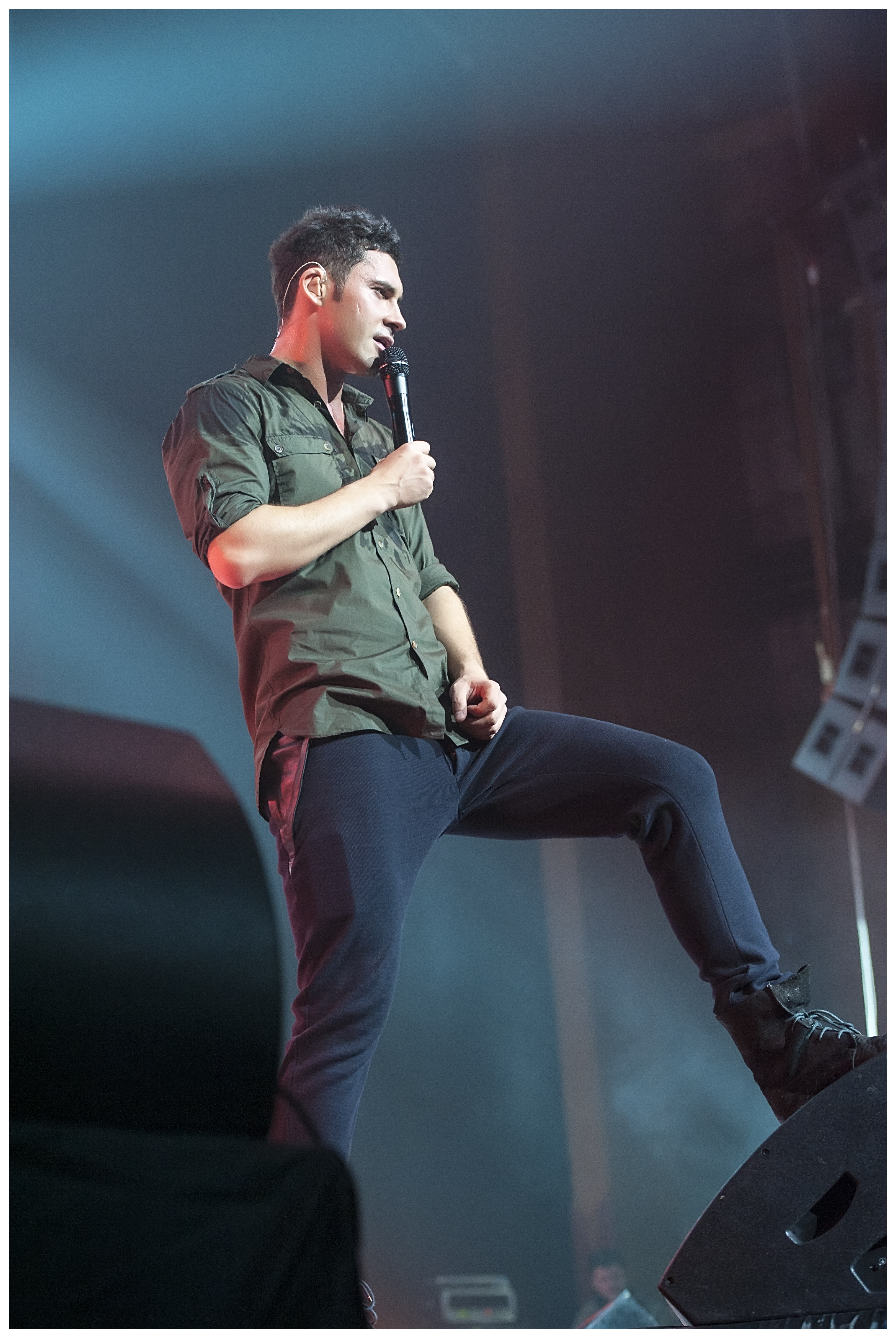 Dan Balan 2012 Photo